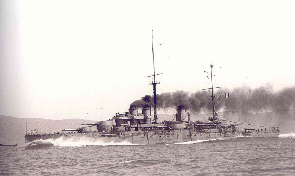 French battleship Paris